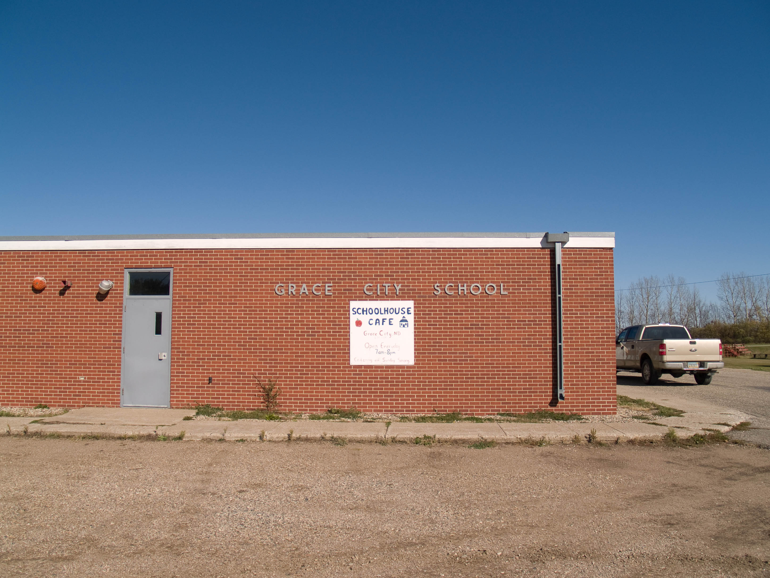 Grace City School in Grace City, North Dakota. From